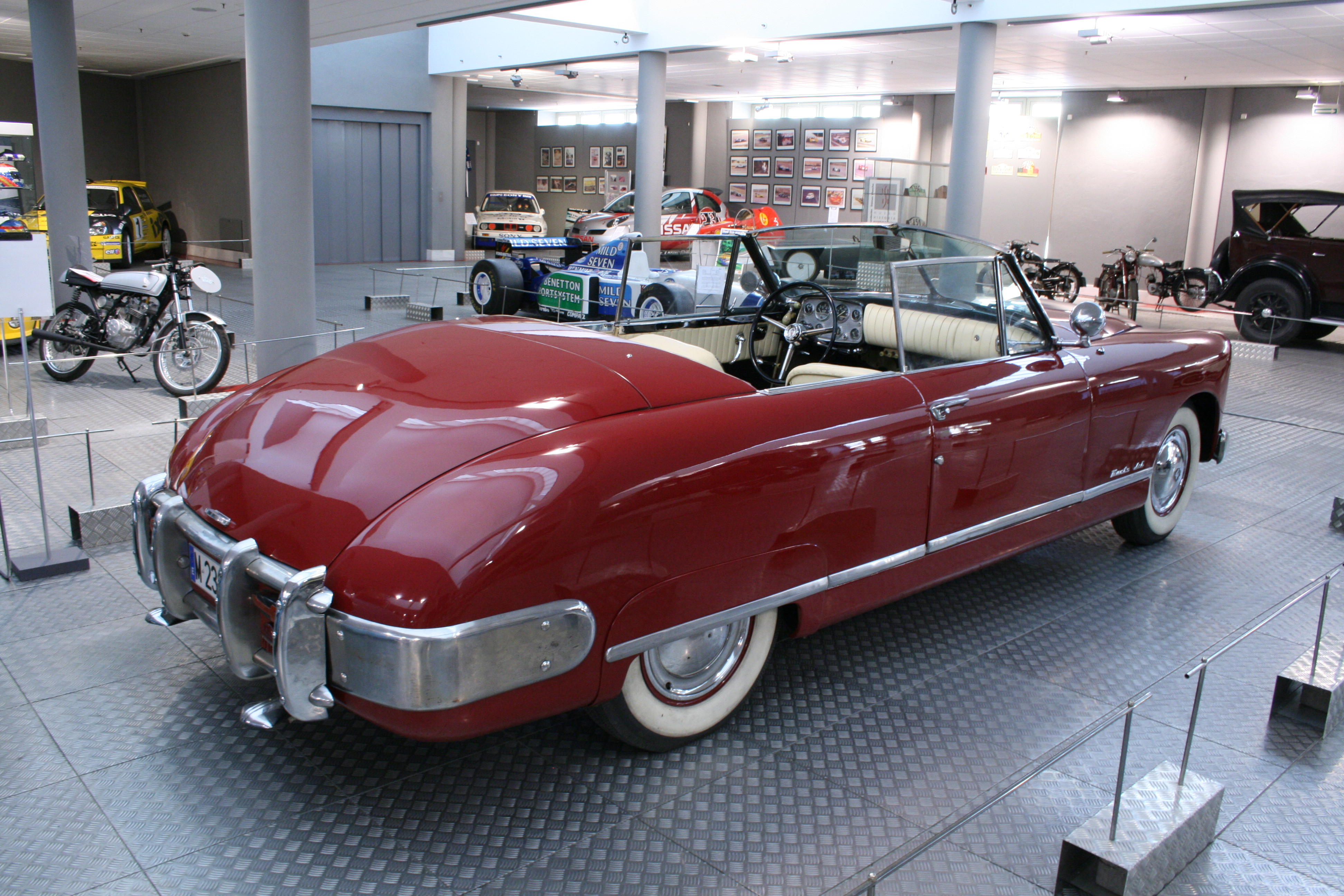 Muntz vehicles